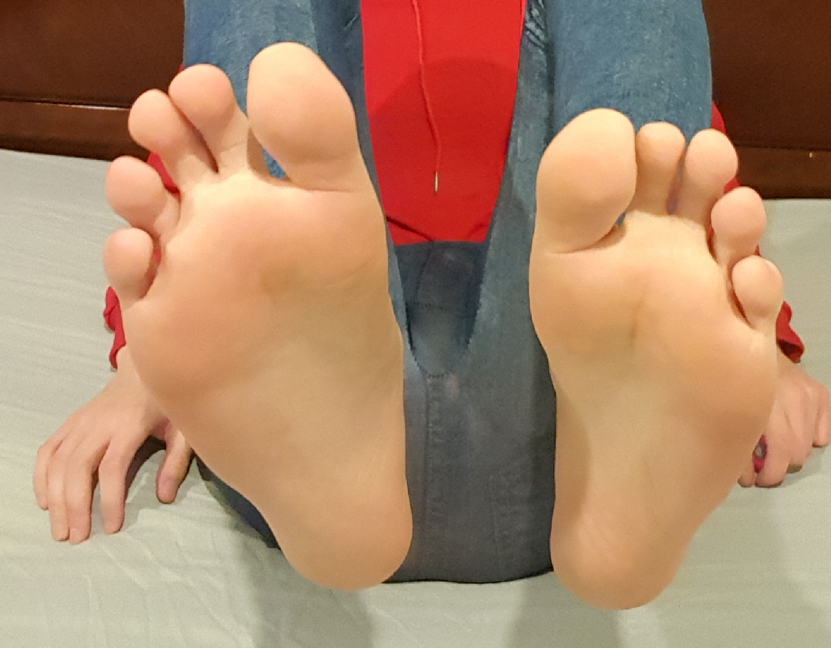 the bottom of human feet showing the soles